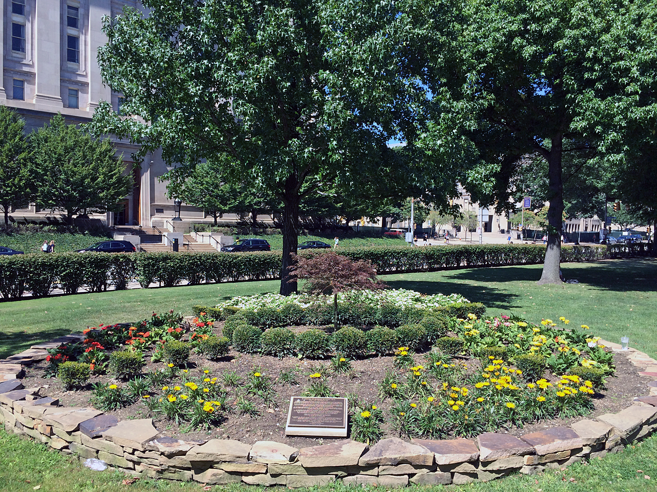 Wangari Maathai Trees and Garden dedicated on the lawn of the University of Pittsburgh's Cathedral of Learning